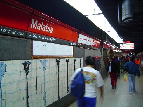 Inside the Malabia subway station, Buenos Aires.